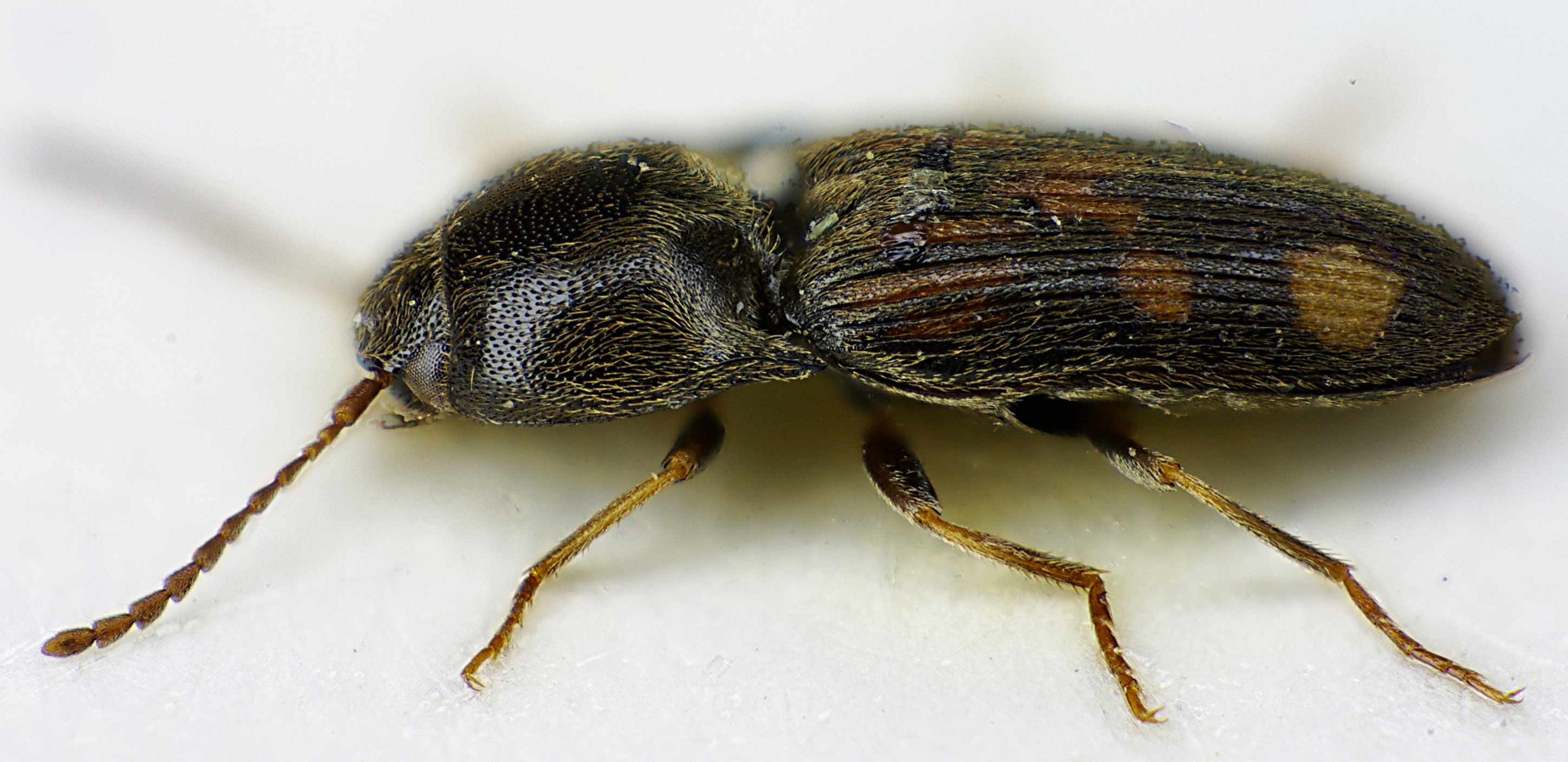 Drasterius bimaculatus, side